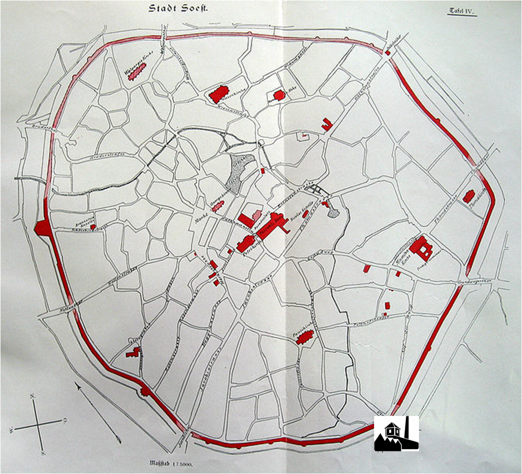 Kulturhaus "Alter Schlachthof" e.V.